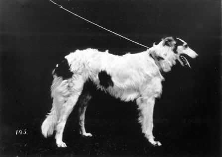 A photograph of a Borzoi named 'Flock', taken in 1879.